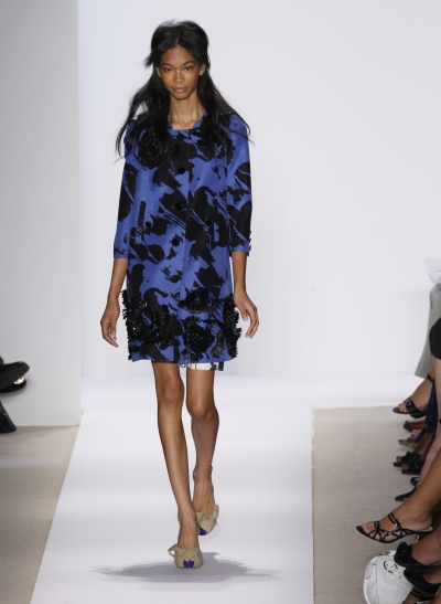 Chanel Iman, American model